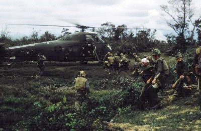 A Medevac during w:3/3's time on the DMZ. Original Caption: Uh-34 medevac part of a sequence Date Taken: 2/16/68 Place Taken: DMZ